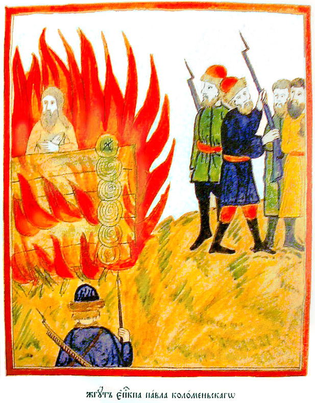 Supposed execution by burning of Paul of Colomna, as depicted in a 19th-century anonymous Old Believer manuscript caption: [they are] burinig down the bishop Paul of Kolomna